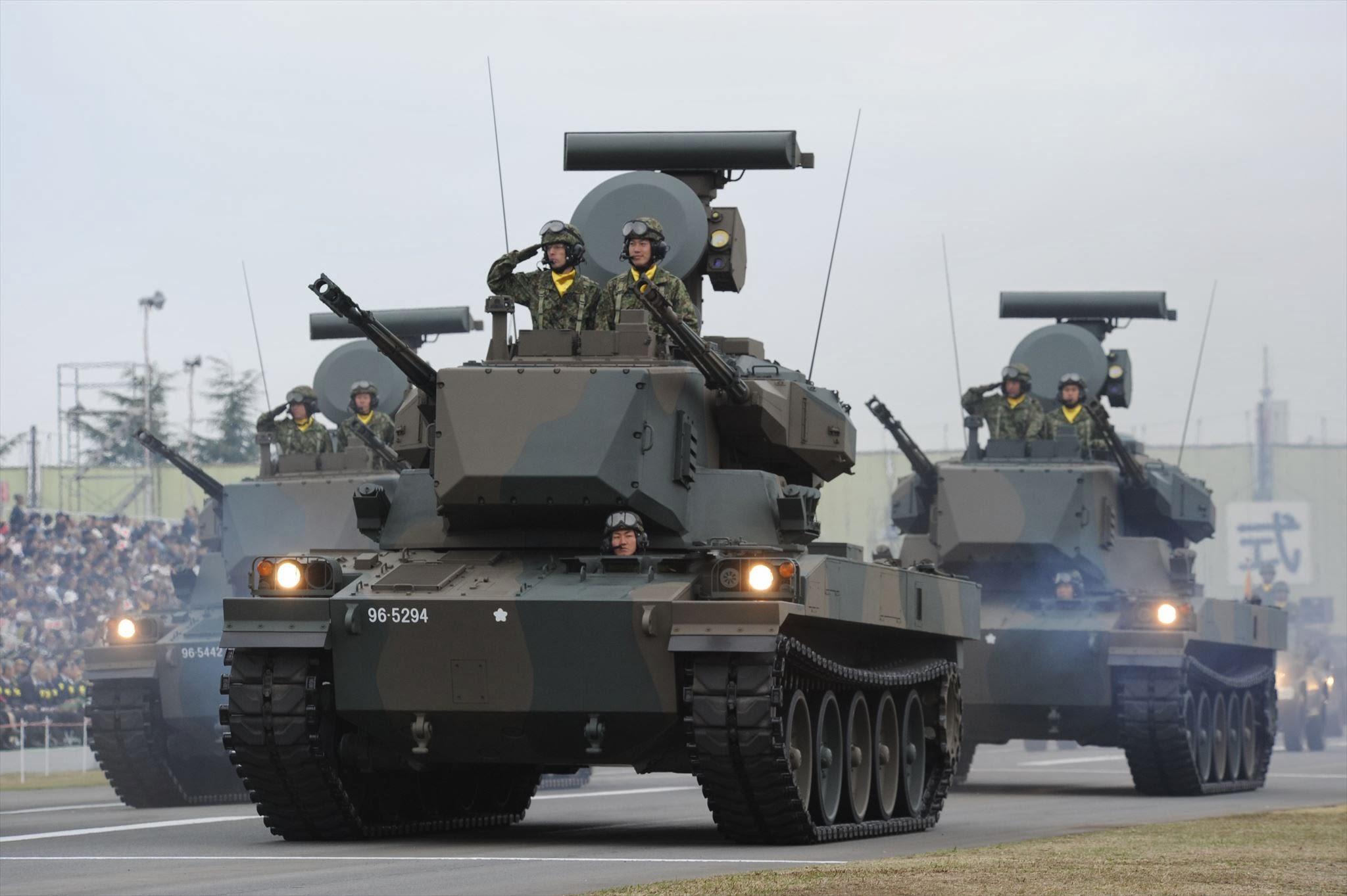 Title 13_12_024_R.JPG Album 自衛隊記念日 観閲式(Parade of Self-Defense Force) 平成22年度自衛隊記念日 観閲式(Parade of Self-Defense Force)